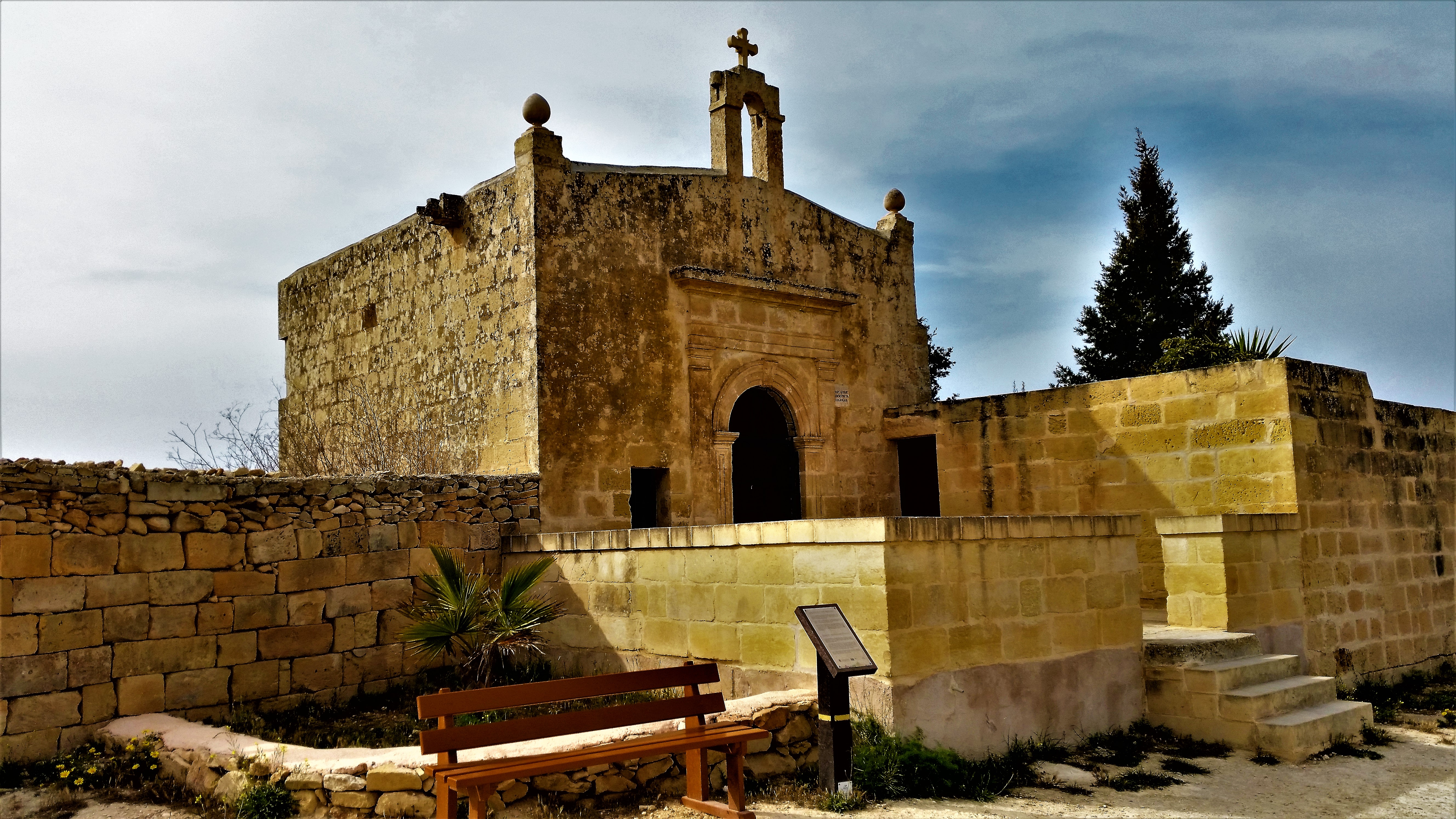 Chapel of St. John the Evengelist, Ħal Millieri, following restoration